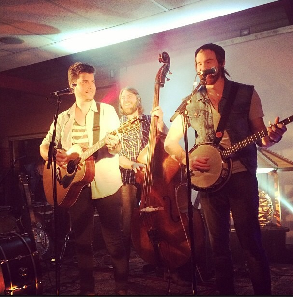 Tim Neufeld & The Glory Boys play at Redeemer College in Ancaster, Ontario in November 2013